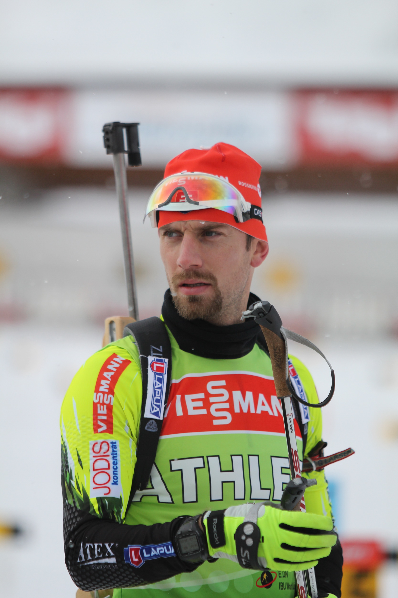 Miroslav Matiaško at Biathlon Worldcup 2013 in Hochfilzen